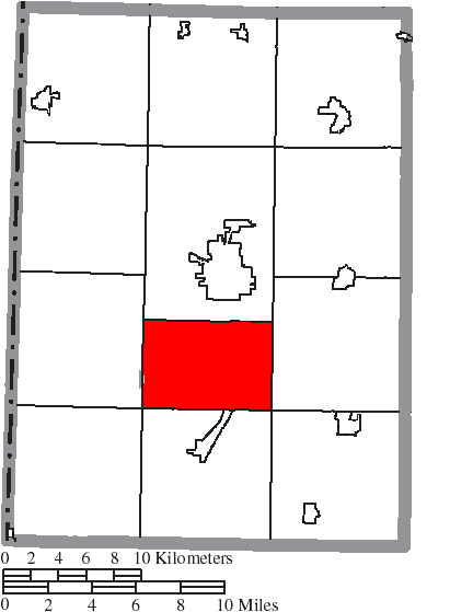 Map of the municipal and township boundaries of Preble County, Ohio, United States, as of the 2000 census, with the location of Gasper Township highlighted. Township borders are shown only in unincorporated areas in order to differentiate incorporated and unincorporated areas more clearly.